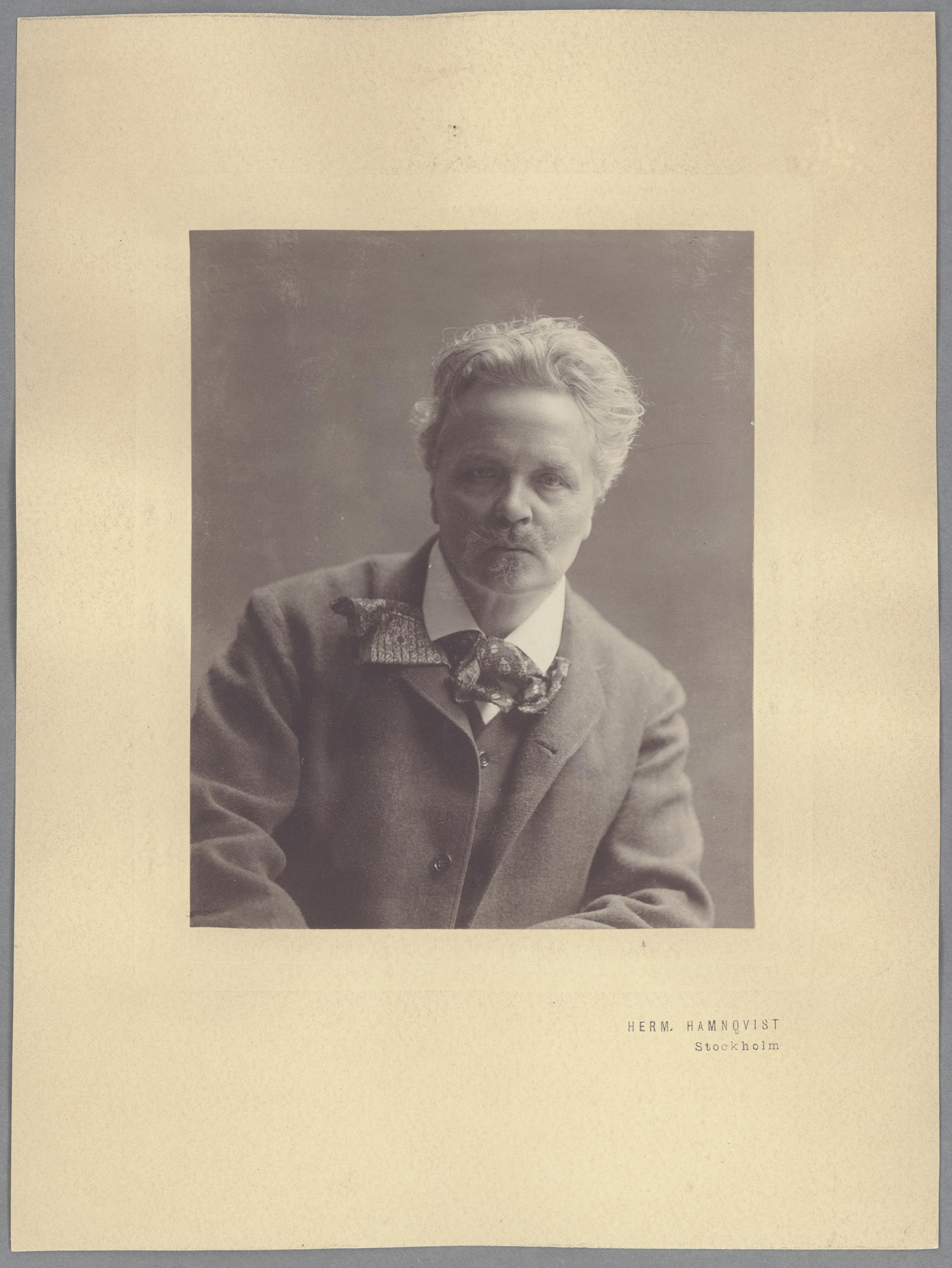 Portrait of Swedish author August Strindberg, Furusund Date: 1901 Photographer: Herman Hamnqvist, Stockholm Part Of: National Library of Sweden, Collection of Manuscripts, Strindbergsrummet